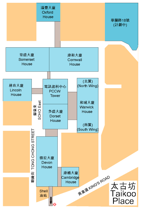 This file is created by Tomchiukc 11:42, 4 March 2006 (UTC) based on the map of Taikoo Place at Quarry Bay from Centamap ( and my own experience at the location.